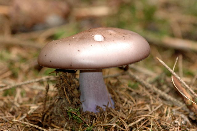 Lepista nuda from Commanster, Belgium. The determination of the species shown in this picture has been verified.